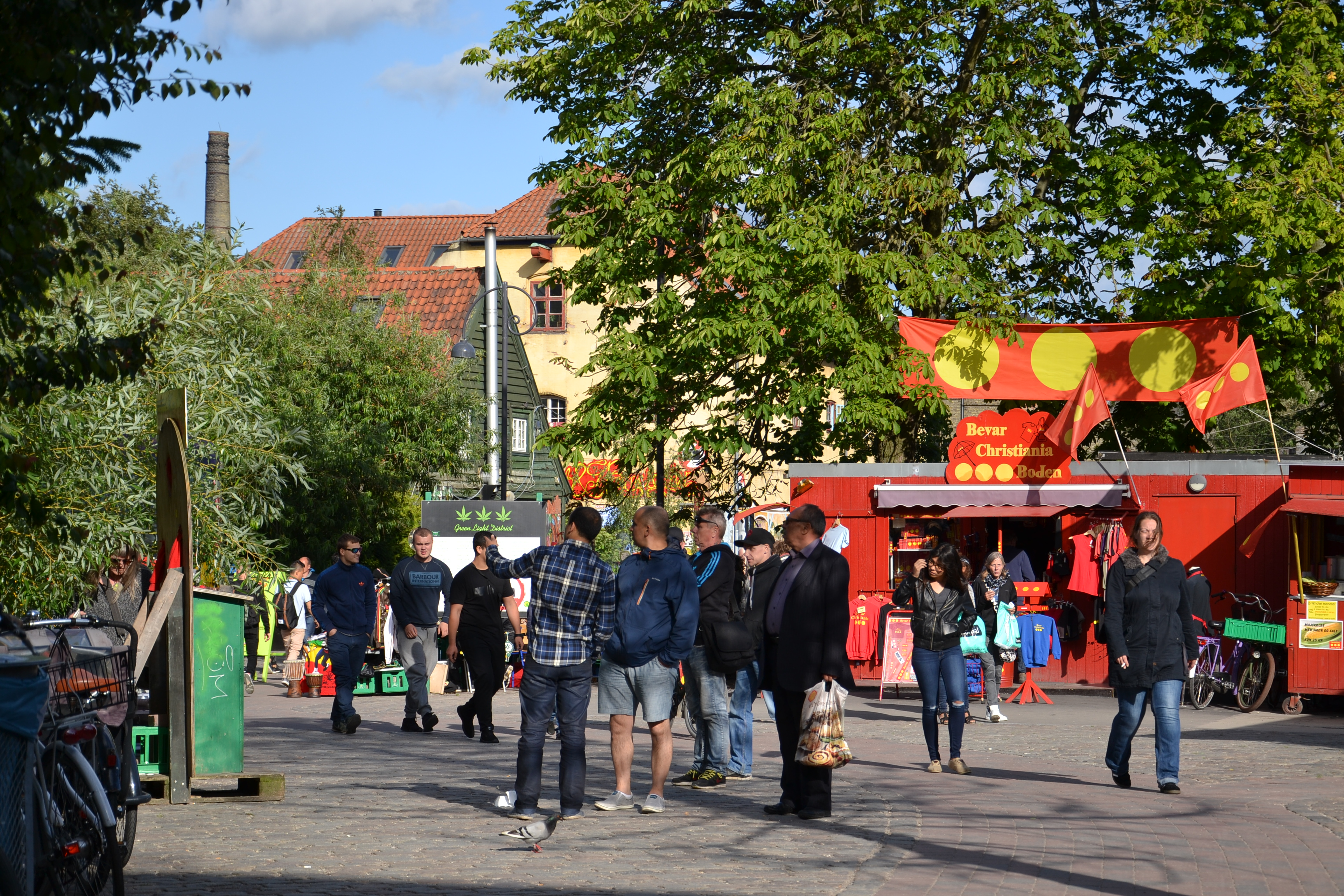 Freetown Christiania in Copenhagen, Denmark